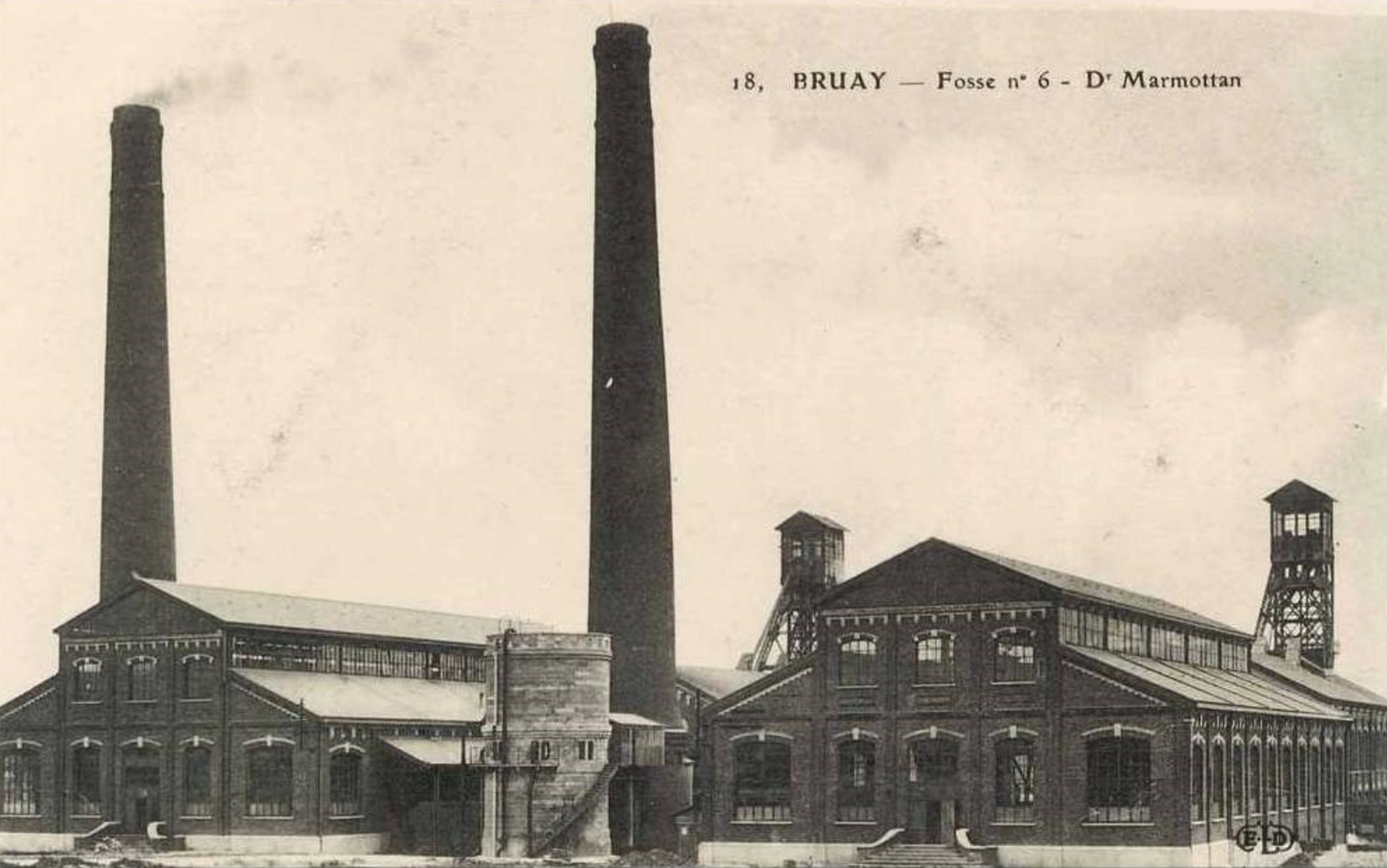 Compagnie des mines de Bruay